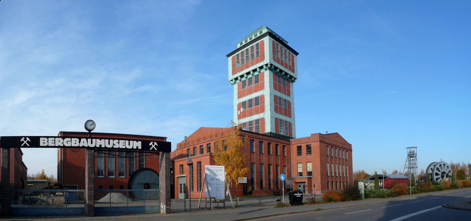 This image shows the coal-mining museum (former "Kaiserin-Augusta-shaft" / "Karl-Liebknecht-shaft") in Oelsnitz in Saxony.